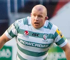 Leicester Tigers scrum-half Micky Young runs from the base of a ruck during an LV= Cup pool match against London Irish at Welford Road, Leicester on Sunday 18th November 2012.